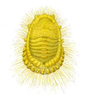 Seychelles scale. Icerya seychellarum (Hemiptera: Margarodidae)